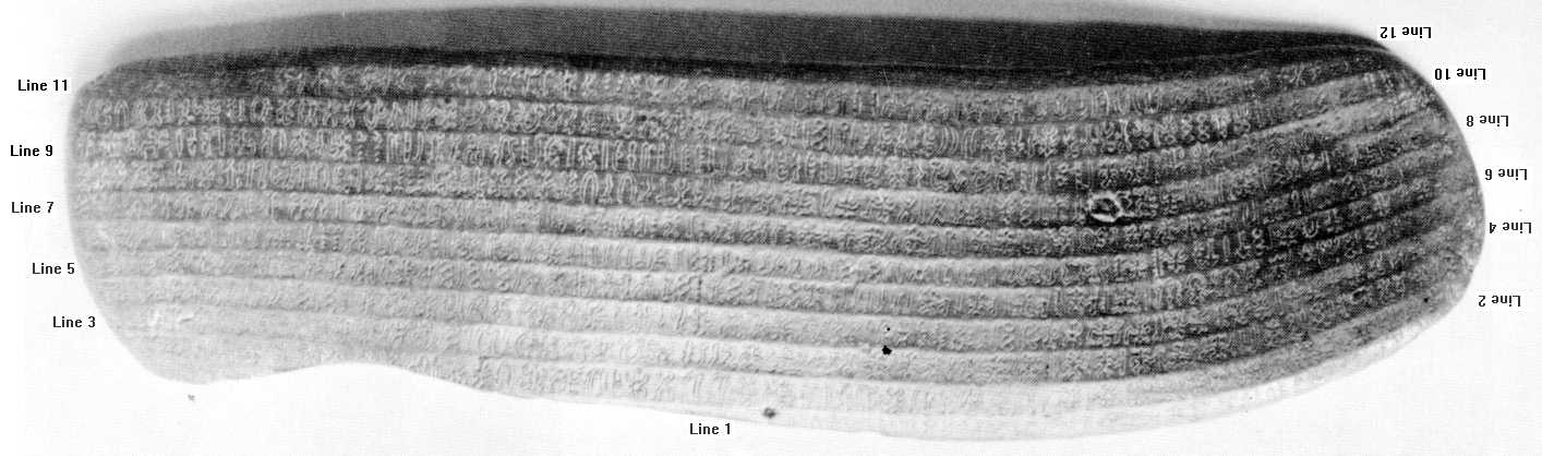 Verso of rongorongo Tablet H (Great Santiago), one of 26 rongorongo tablets that may be authentic.